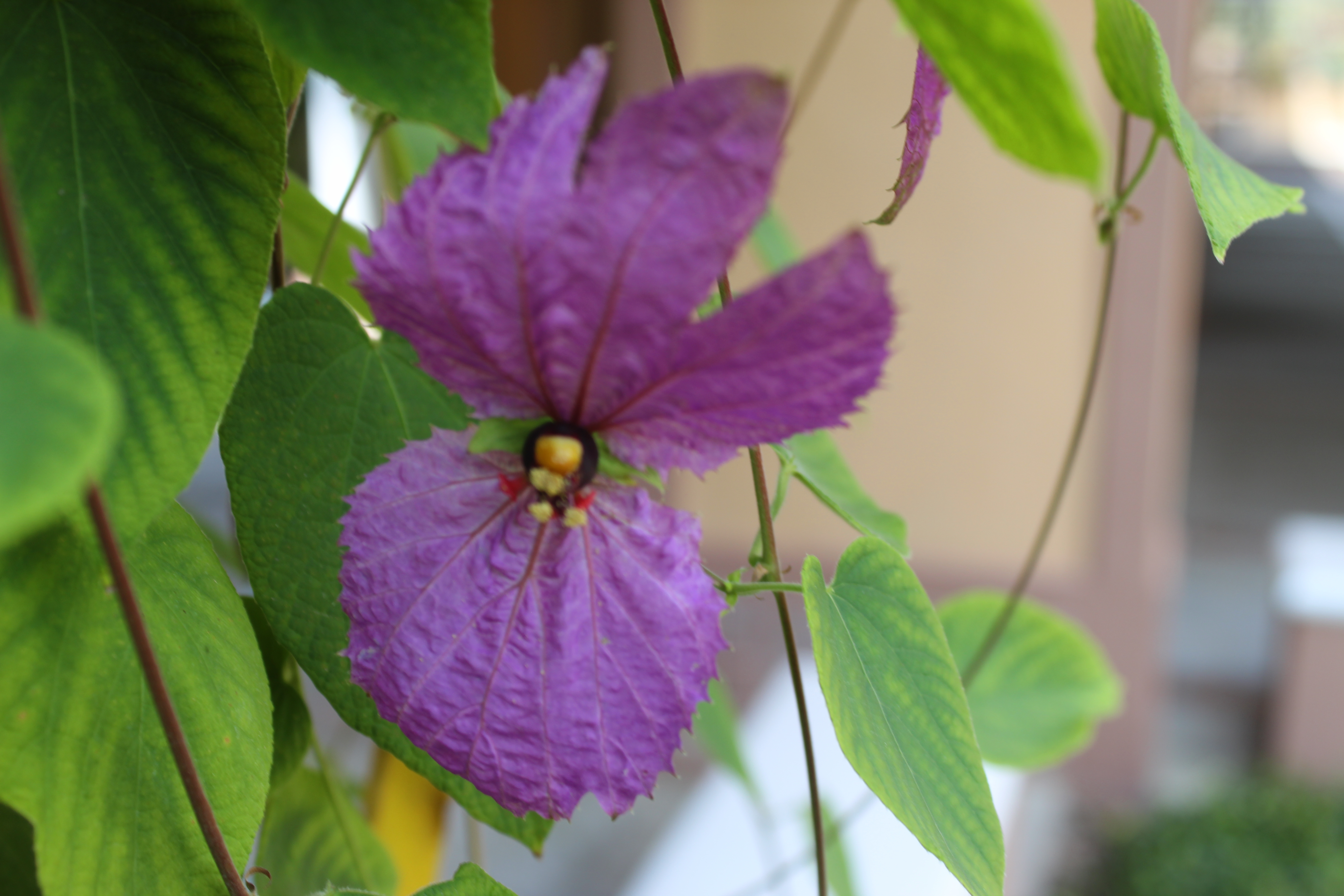 Bok Tower Gardens, Lake Wales, FL